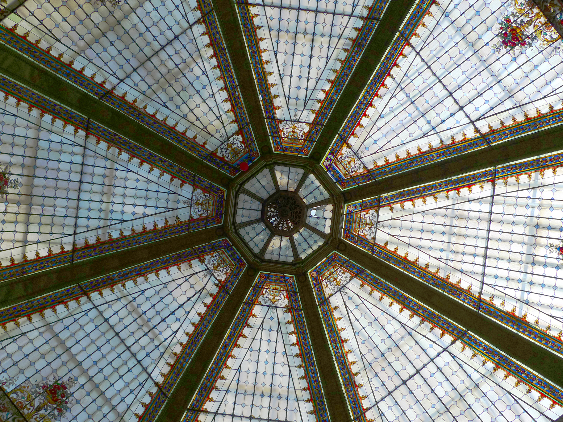 Stained glass roof Oktogon Zagreb, Croatia.